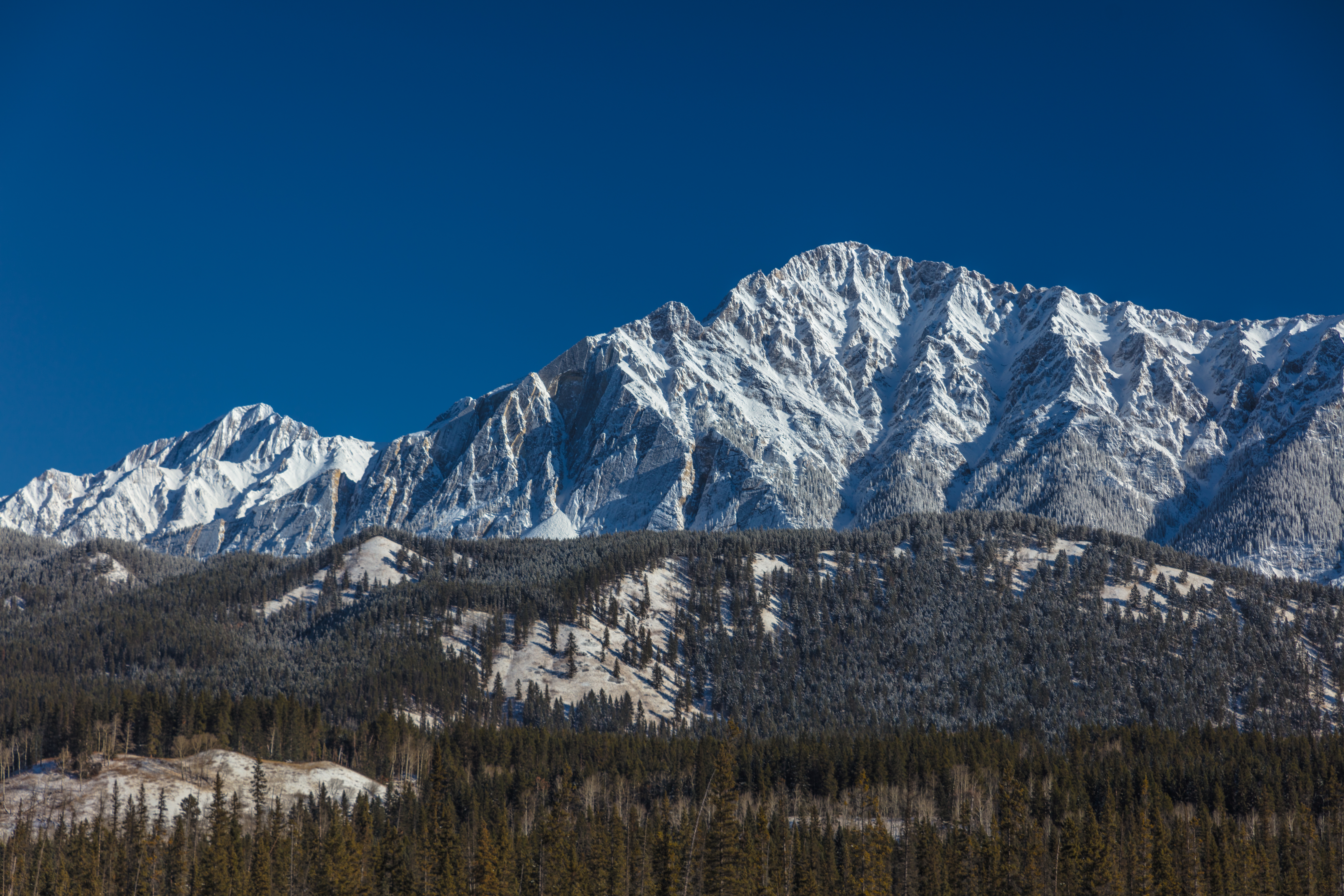 a weekend trip to Banff Alberta in the Canadian Rockies..for the annual Mountain Film and book festival...